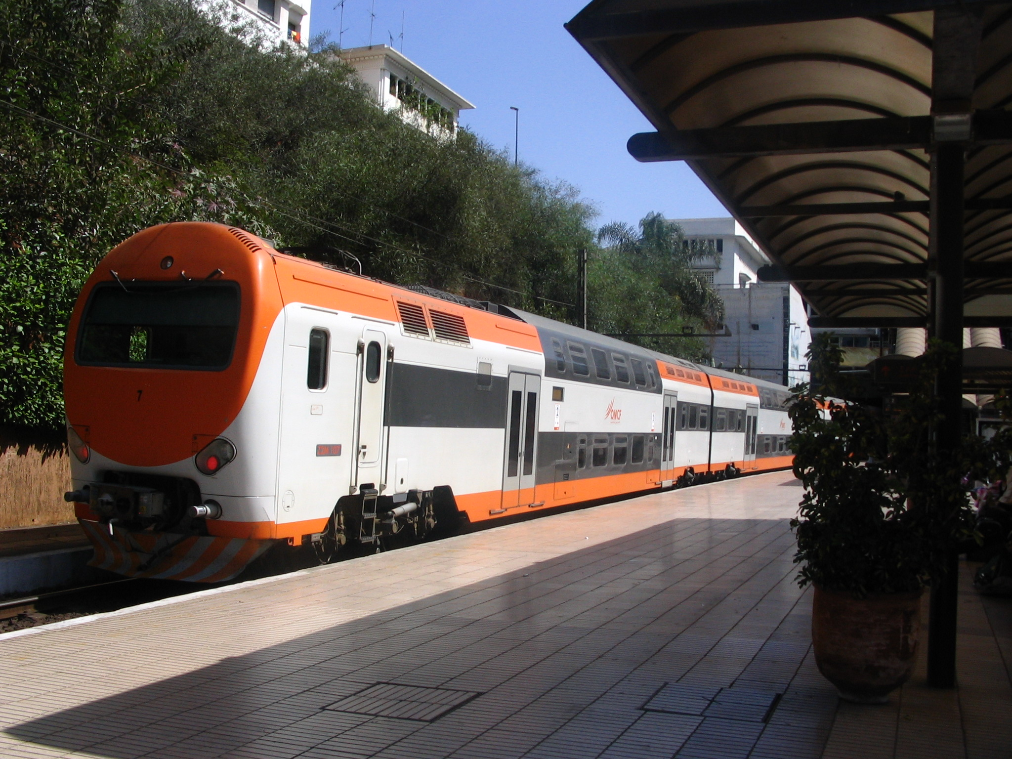 Rabat Ville railway station